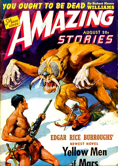 Cover of Amazing Stories, August 1941